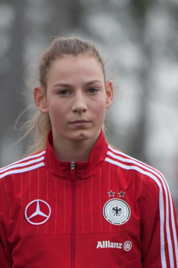 UEFA European Women's U17 Championship elite round Germany vs. Switzerland, 2016-03-19